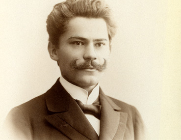 Jan Szczepanik (Polish inventor) - photo with an autograph